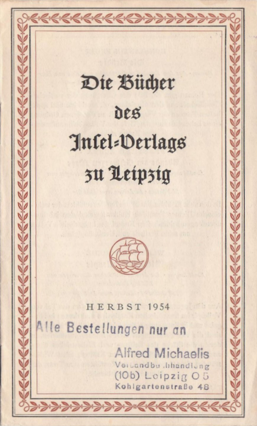 List of Books (Advertizement) Insel Verlag (Publisher) 1954